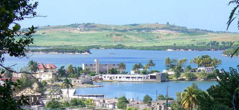 Mariel bay in western Cuba